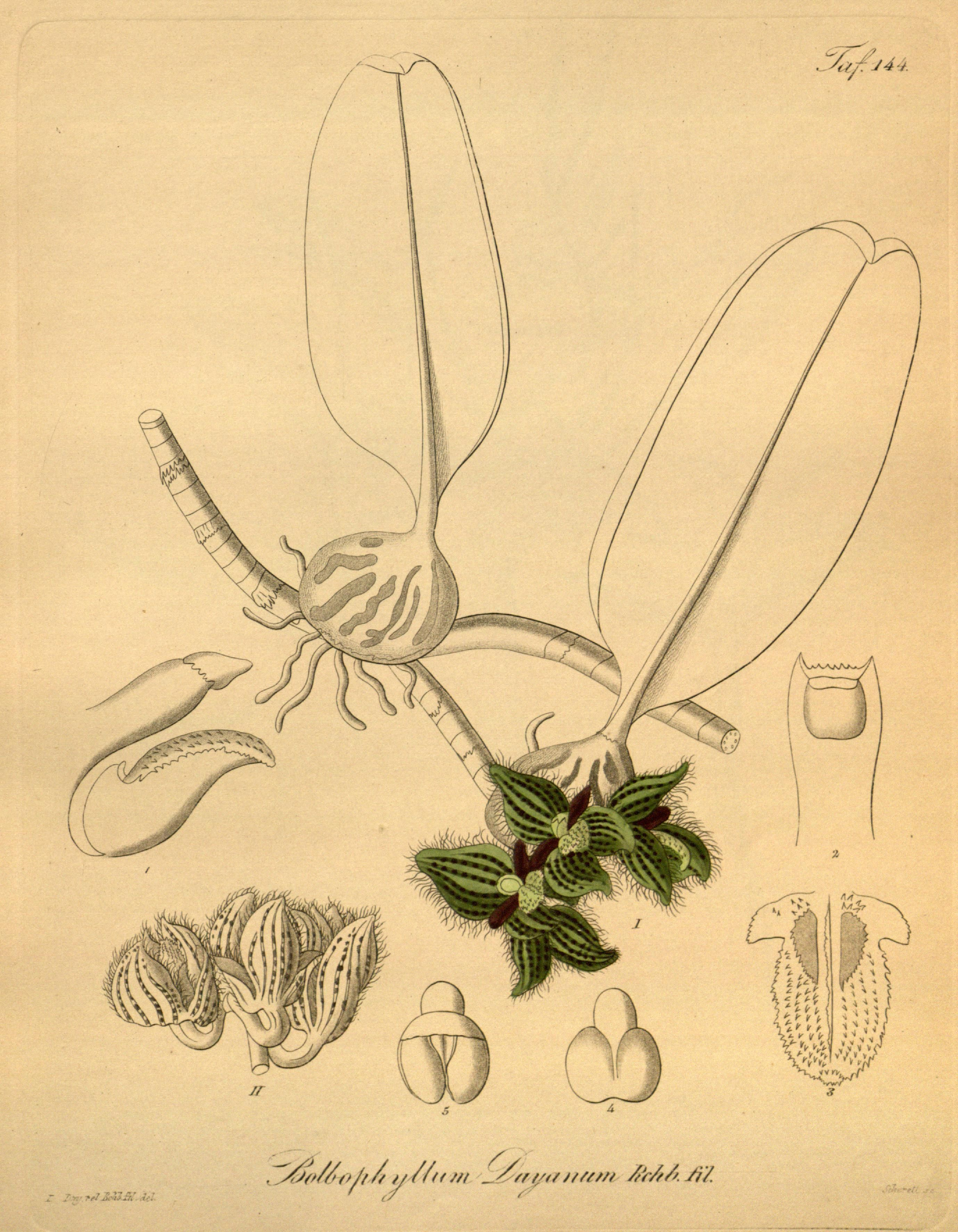 Illustration of Bulbophyllum dayanum (spelled Bolbophyllum dayanum)